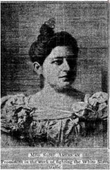 Ms Saide American